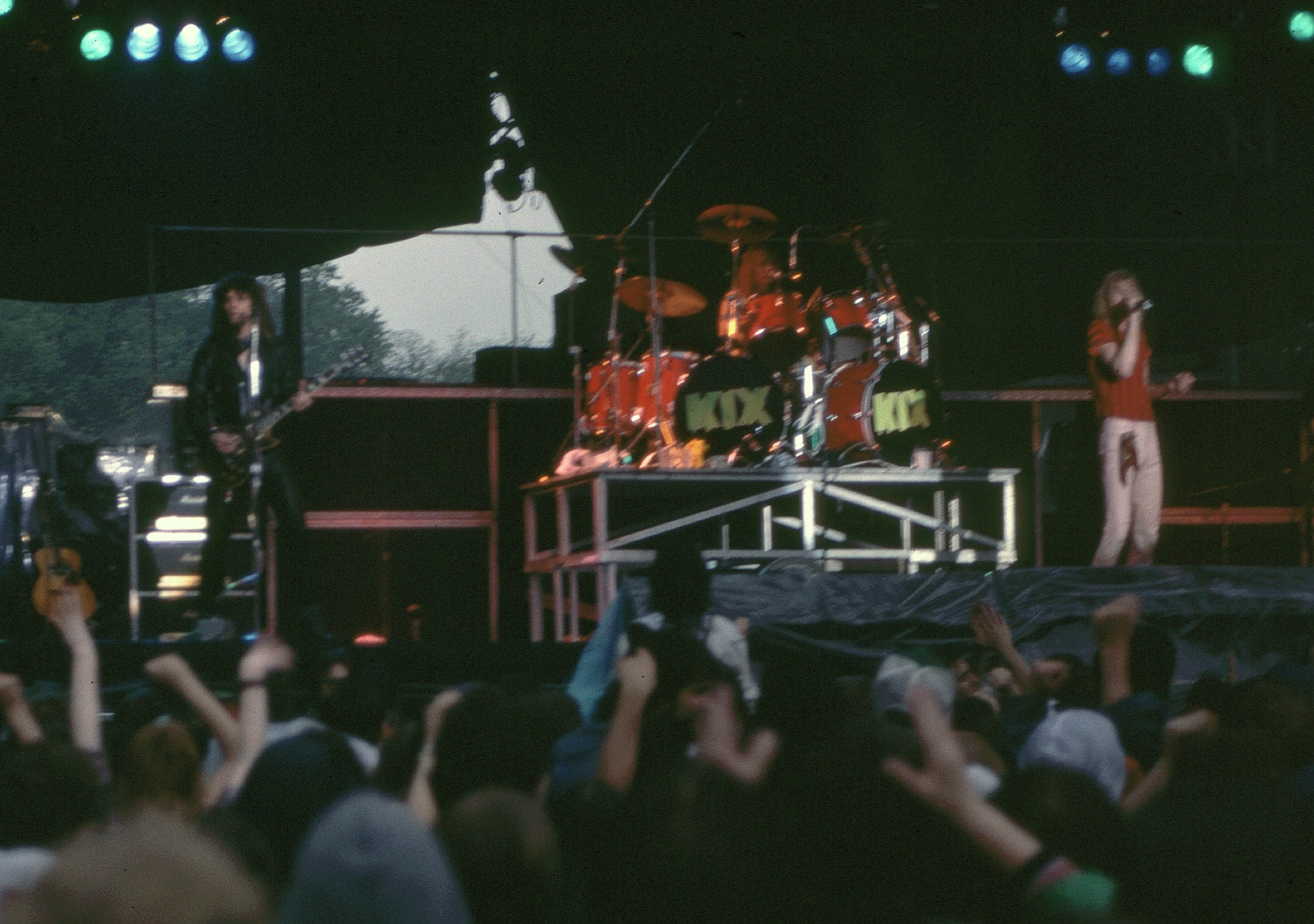 Kix (band) performing in 1983. Photo By Ted Van Pelt